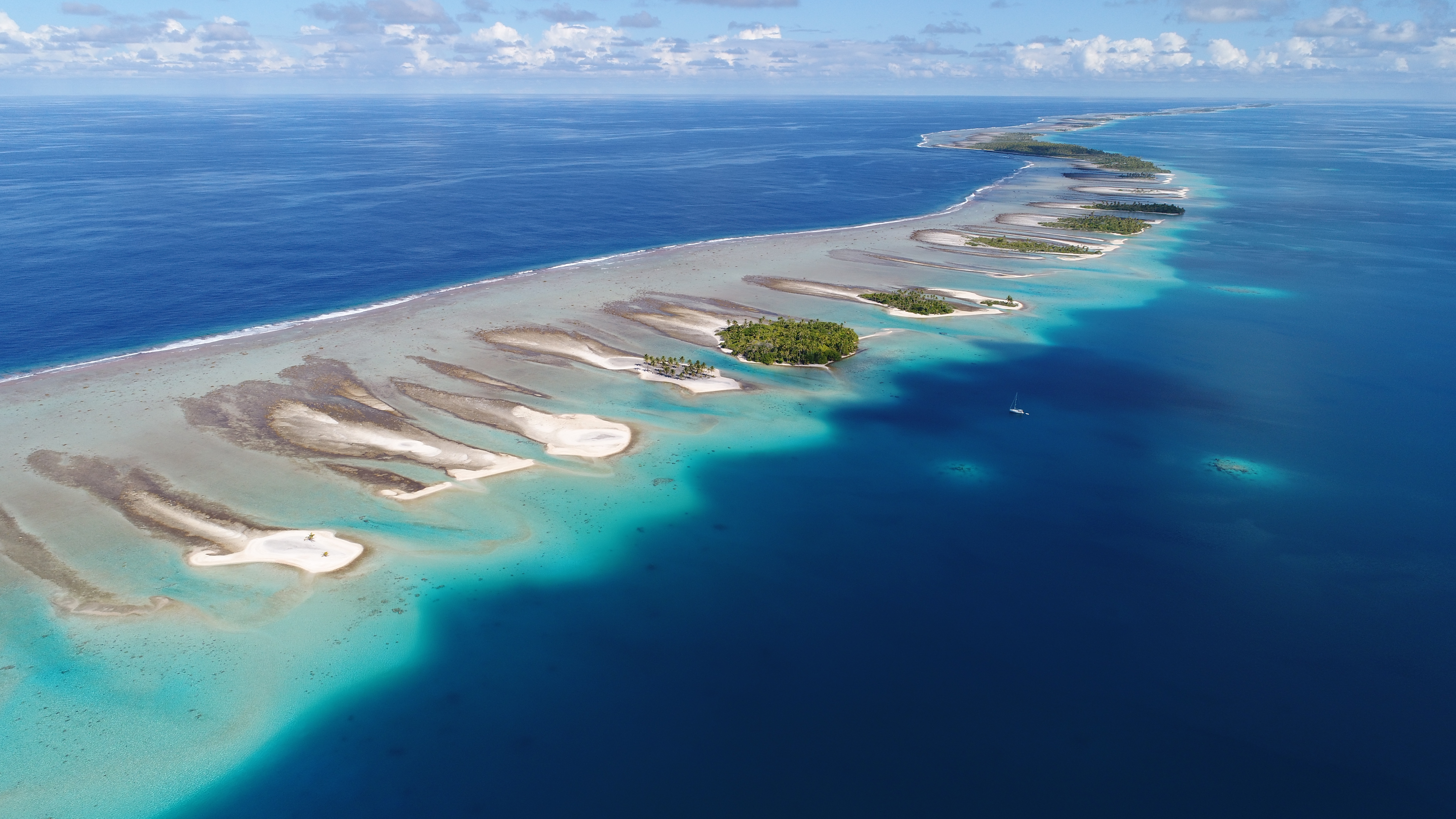 Photo of Raroia taken by drone from Kon Tiki island.